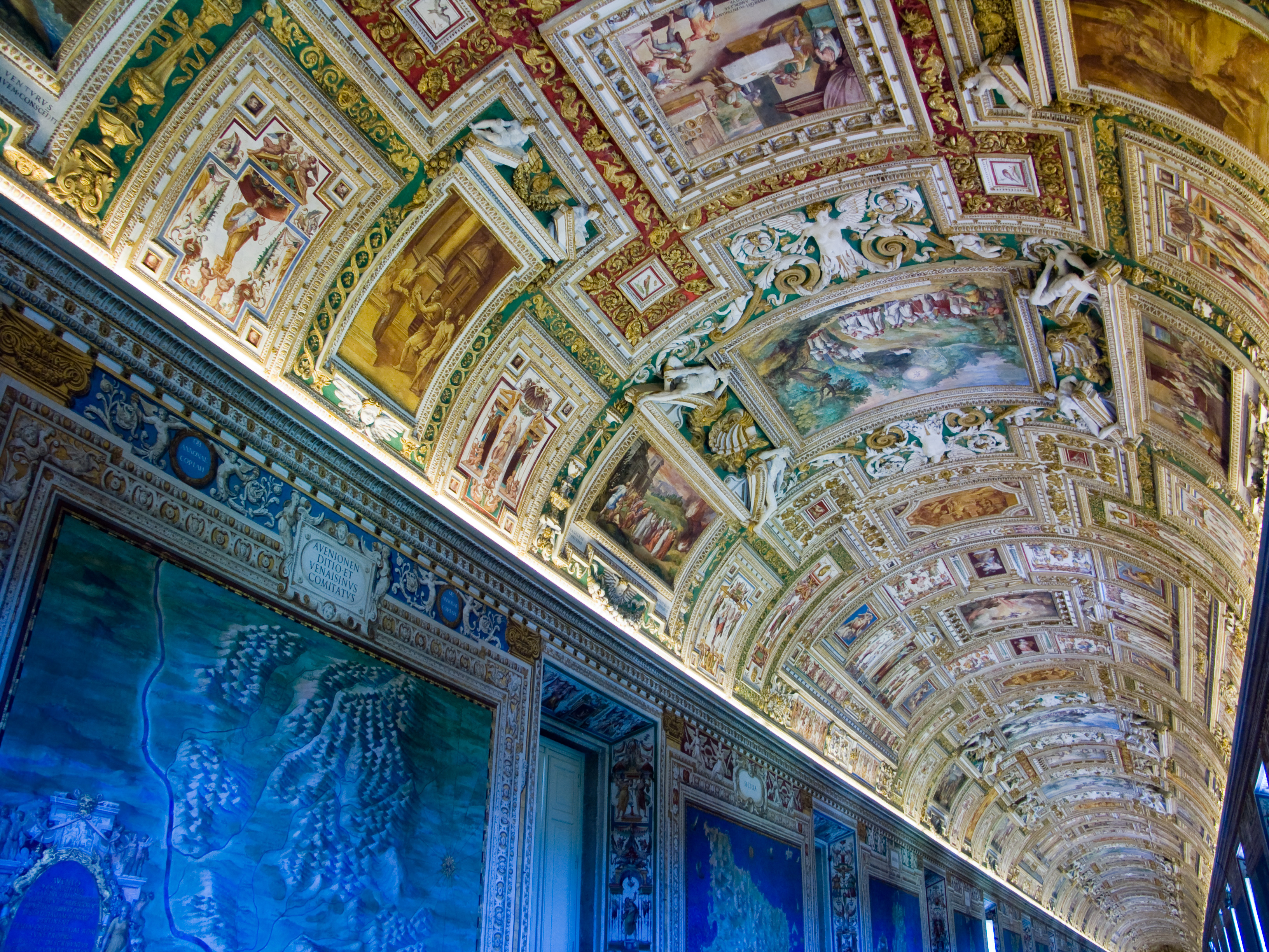 Vatican Museums Native nameMusei VaticaniLocationVatican CityCoordinates41° 54′ 23″ N, 12° 27′ 16″ E Established1506Website Plafond de la salle des cartes